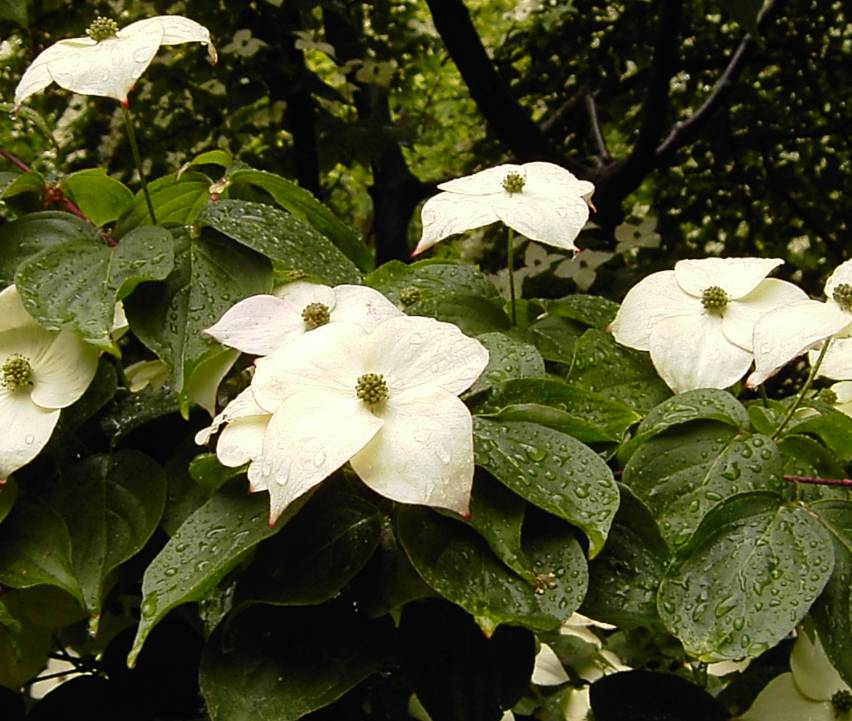 Cornus kousa blooming in a park in Cologne, Germany.